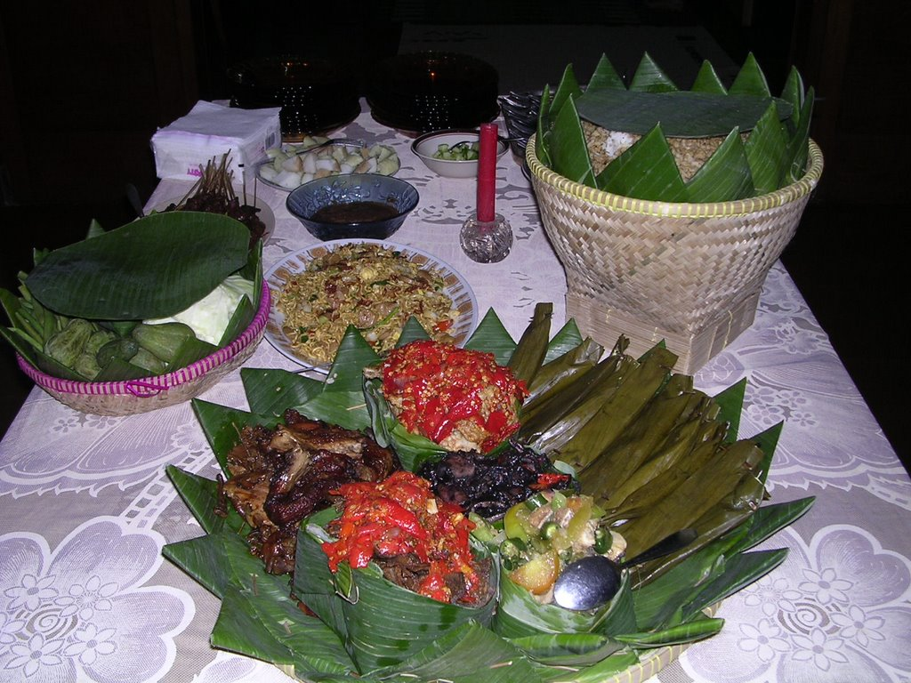 Tutug Oncom, a sundanese food